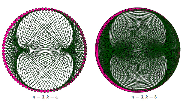 Undirected De Bruijn graphs for n=3,k=4 and n=3, k=5